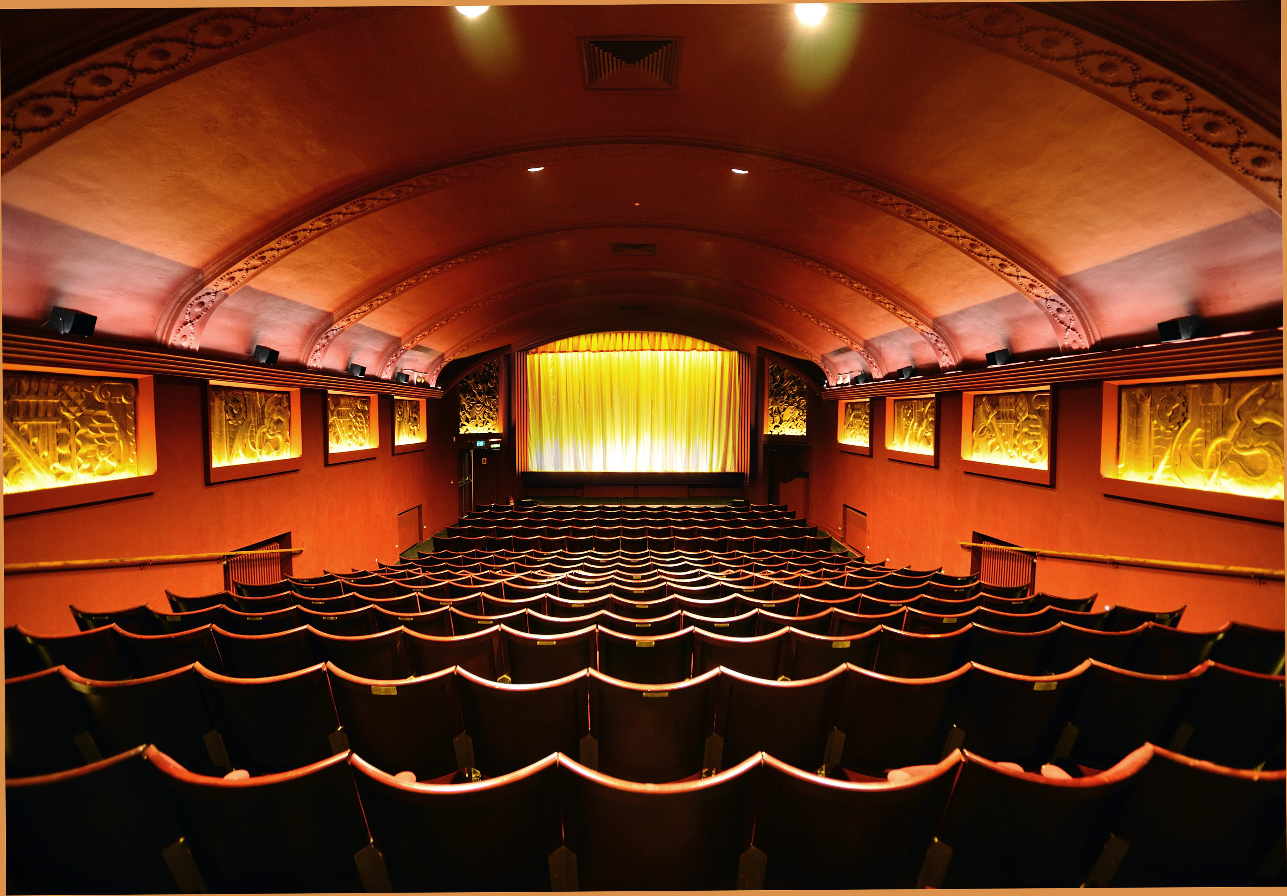 Auditorium restored in the Centenary restoration project.